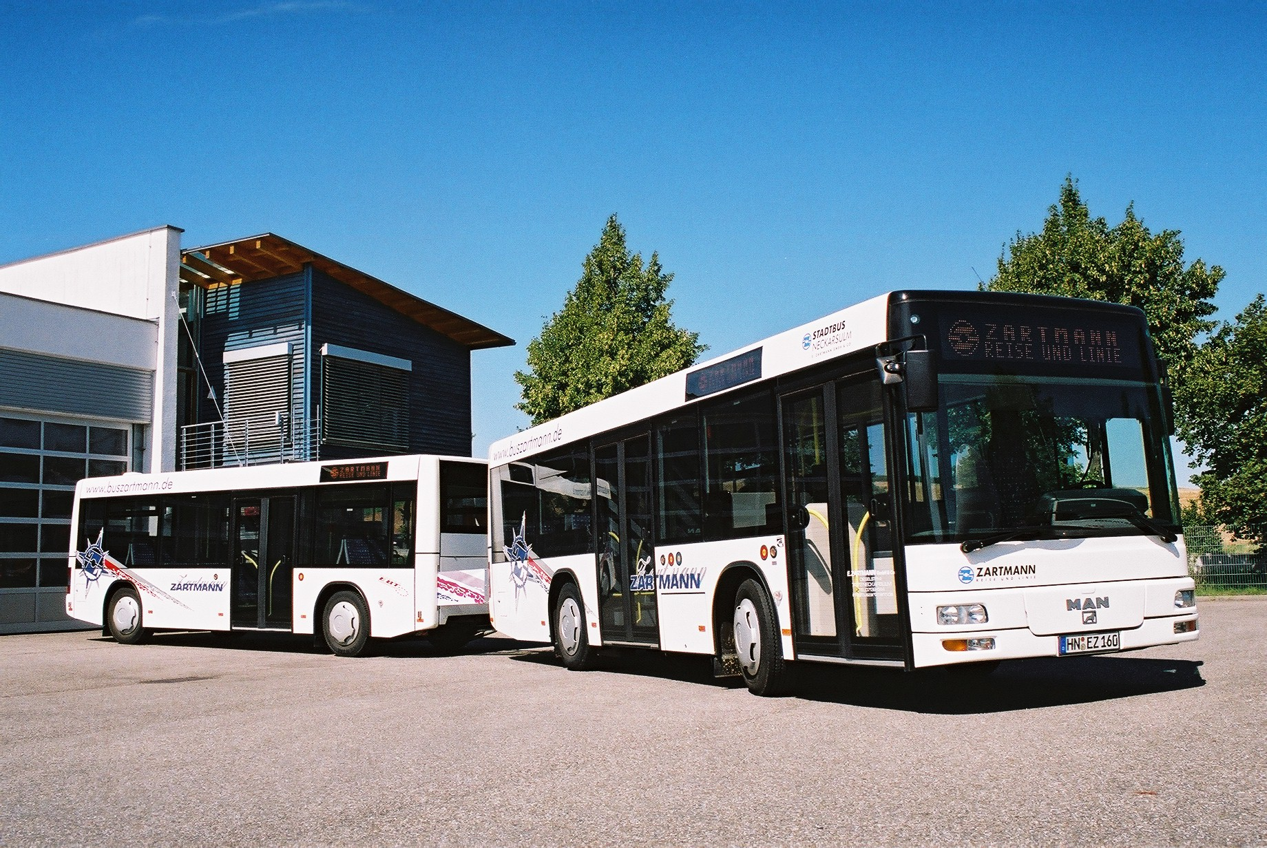 MIDI TRAIN - MAN-Göppel NM 2x3.3 bus (reg. HN-EZ 160) with Göppel G10 bus trailer in Neckarsulm, Germany. Göppel body bus with MAN A35 chassis. E. Zartmann GmbH & Co. KG - Stadtbus Neckarsulm from Neckarsulm operator.